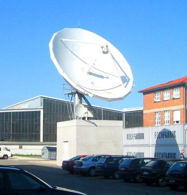 The Astra parabolic reflector antenna of B.TV/BTV4U in Ludwigsburg. Photo taken: August 30 th 2005. B.TV-Logo removed.